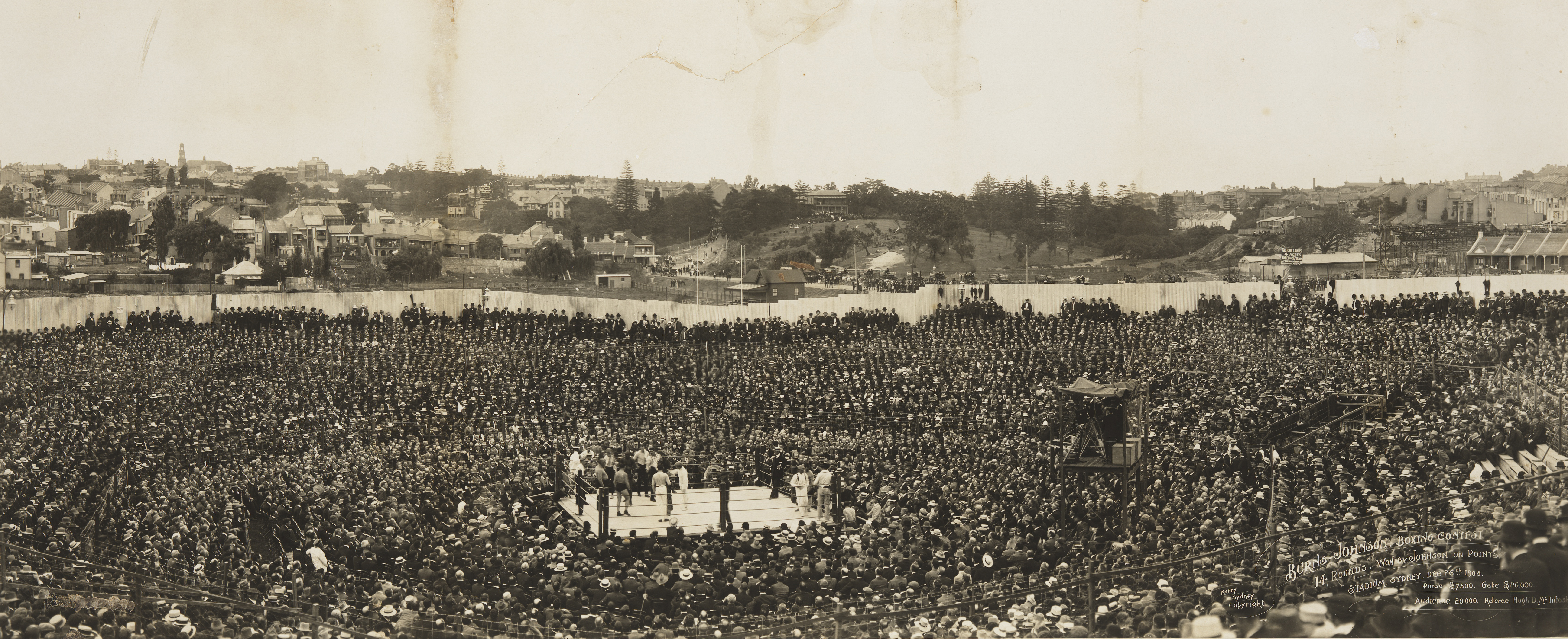 The Jack Johnson-Tommy Burns boxing match at Sydney Stadium, Rushcutters Bay, on December 26, 1908.